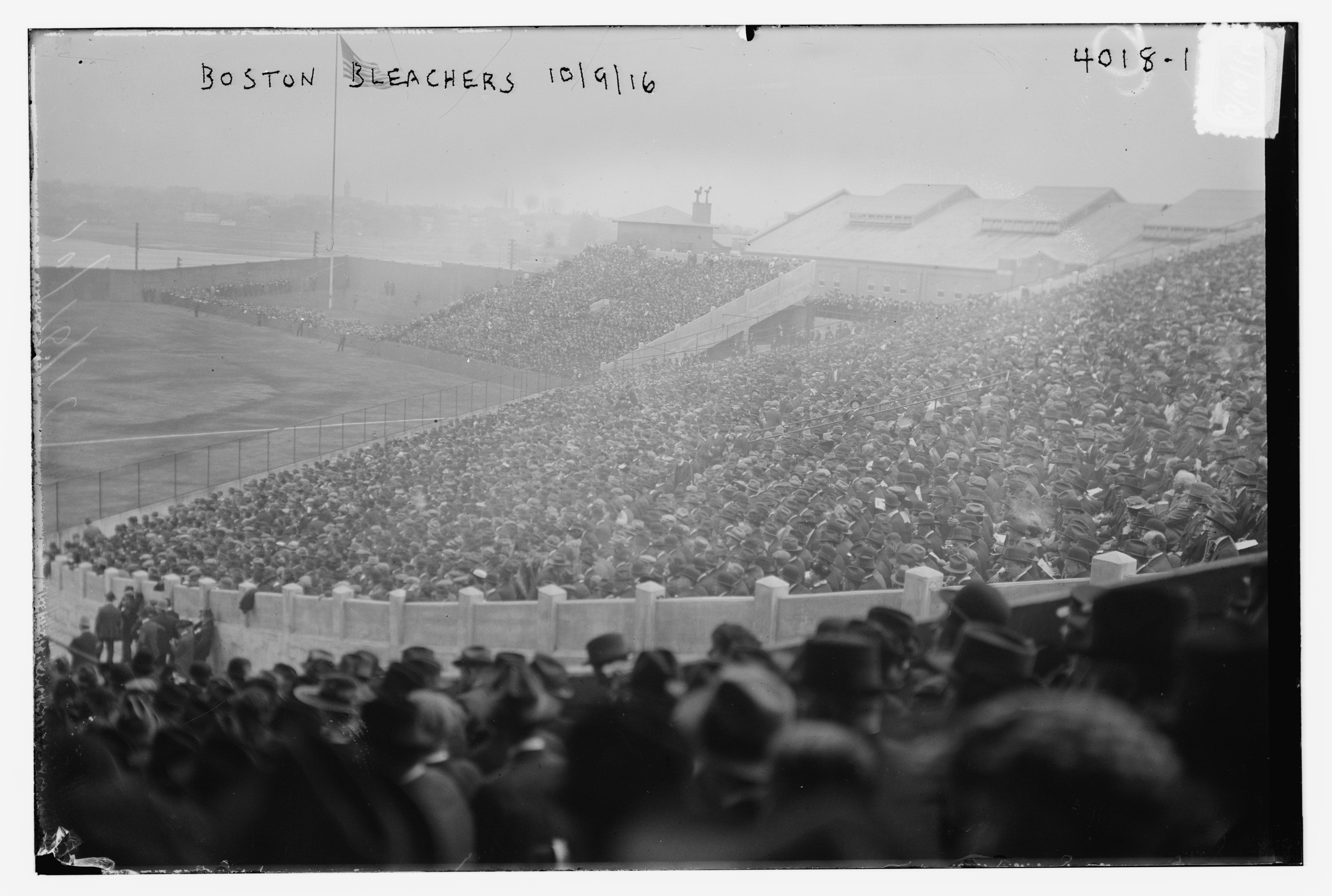 Bain News Service,, publisher. Boston bleachers, Braves Field 2nd game of World Series, 10/9/16 10/9/16 (date created or published later by Bain) 1 negative : glass ; 5 x 7 in. or smaller. Notes: Title from unverified data provided by the Bain News Service on the negatives or caption cards. Forms part of: George Grantham Bain Collection (Library of Congress). Subjects: Basball. Format: Glass negatives. Repository: Library of Congress, Prints and Photographs Division, Washington, D.C. 20540 USA, General information about the Bain Collection is available at Higher resolution image is available (Persistent URL): Call Number: LC-B2- 4018-1